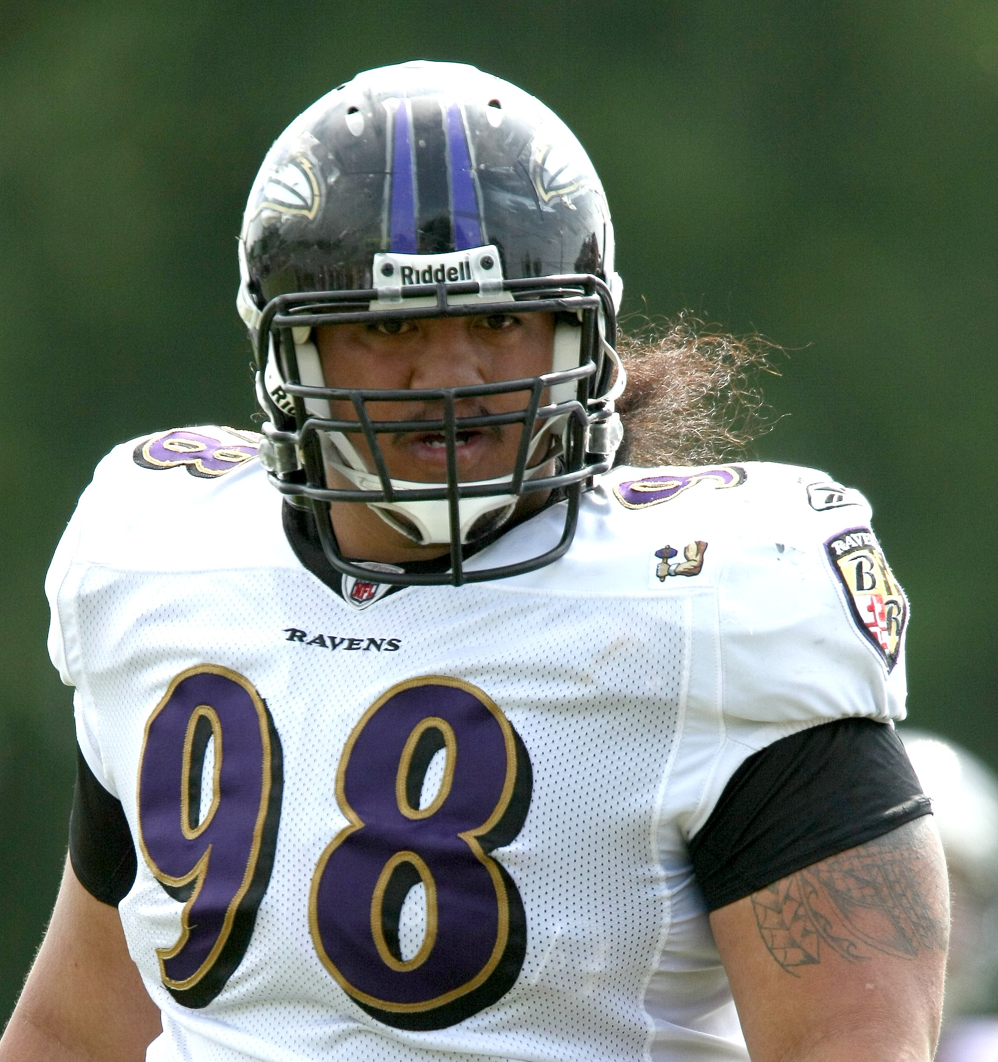 Kelly Talavou at Baltimore Ravens Training Camp on August 5, 2009